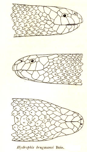 Hydrophis brugmansi